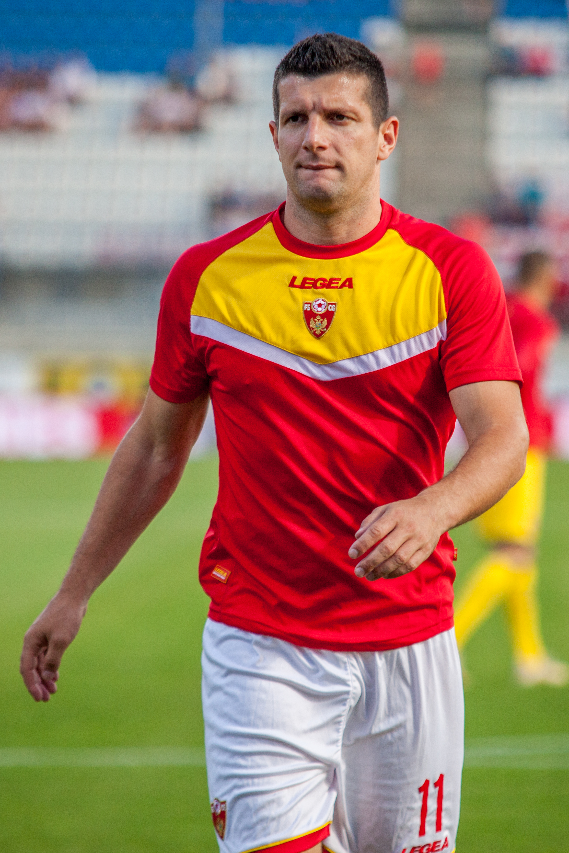 Fatos Bećiraj at EURO 2020 Qualifying Round Czech Republic-Montenegro (10/6/2019, Ander Stadium, Olomouc) Personality rights warningAlthough this work is freely licensed or in the public domain, the person(s) shown may have rights that legally restrict certain re-uses unless those depicted consent to such uses. In these cases, a model release or other evidence of consent could protect you from infringement claims.